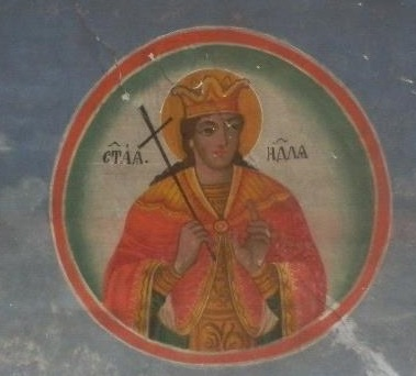 Saint Kyriaki Church, Satovcha